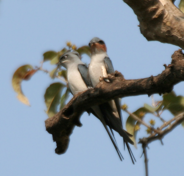 Crested Treeswift Hemiprocne coronata in Kawal Wildlife Sanctuary, Andhra Pradesh, India.